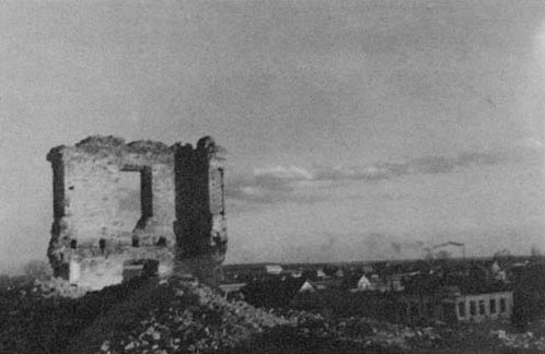 Oginsky Palace Ruins in Slonim, 1900s